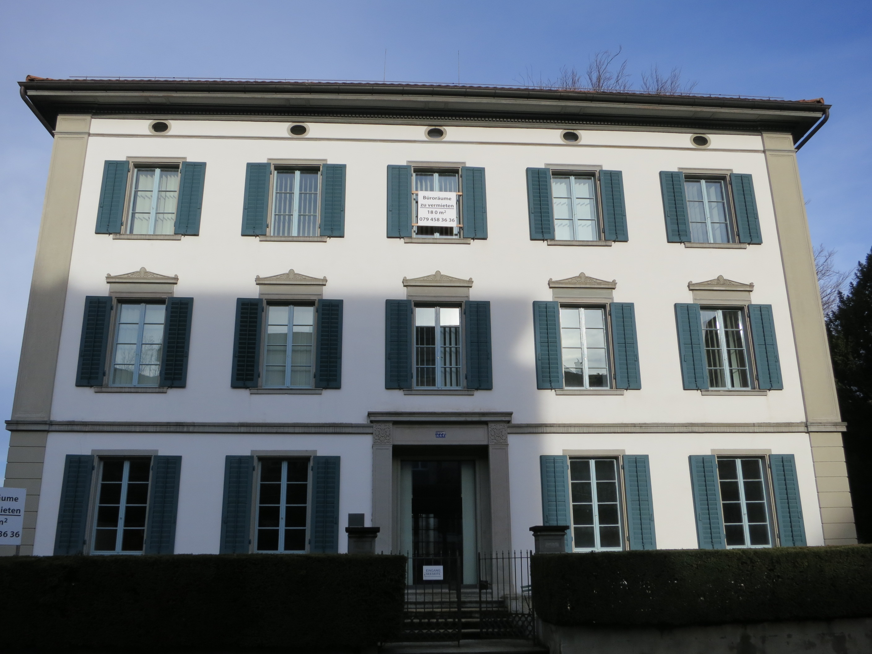 Villa Thalhof, Fabrikant Stünzi, Horgen ZH, Schweiz